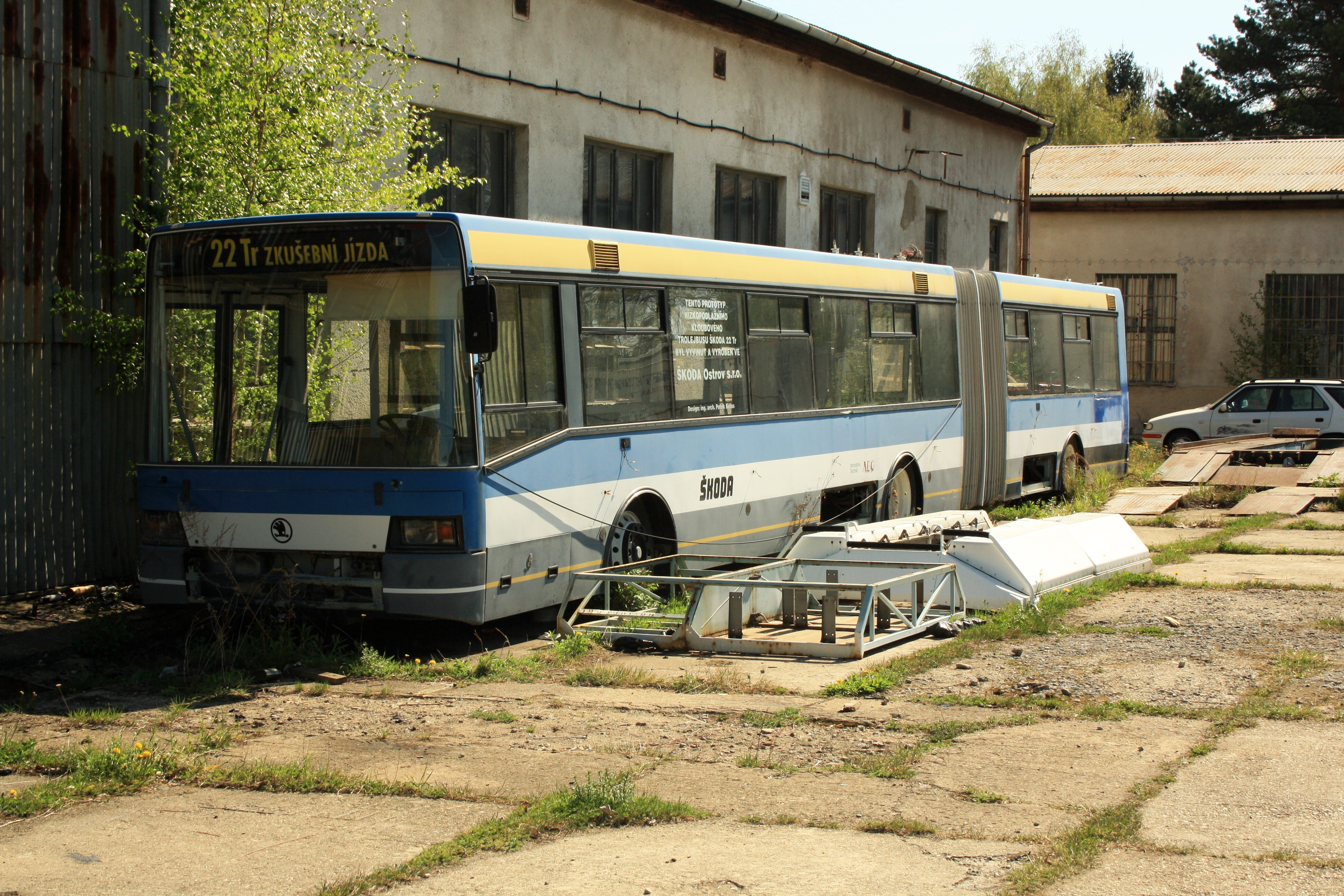 Škoda 22TrG trolleybus prototype, depository of Technical Museum in Brno, Czech Republic This photograph was taken with DSLR from WMCZ's Camera grant - OpenStreetMap(Info)